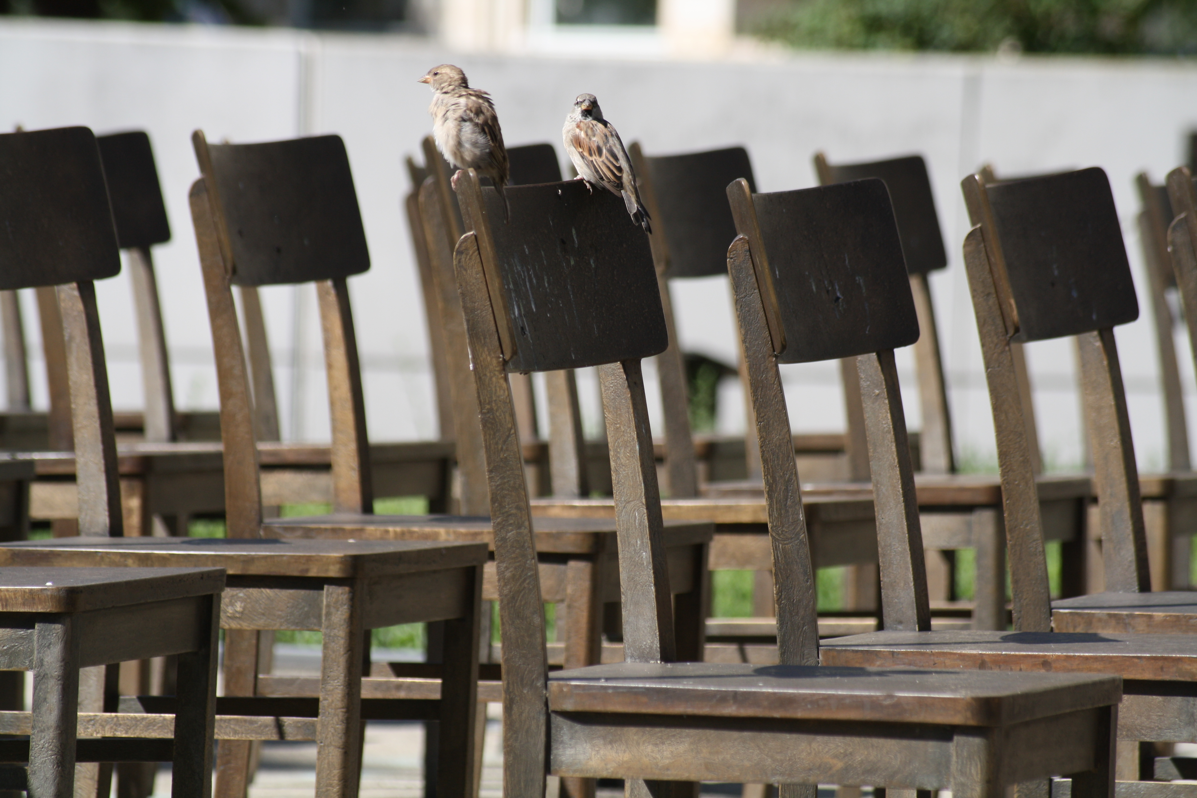 Memorial at the site of the Great Leipzig Community Synagogue, Gottschedstrasse corner Zentralstrasse, design of helmet + Dilengite, inauguration of 24th June 2001